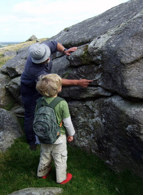 Geology explained! The most junior member of the geology excursion has discovered an excellent example of flow banding in a rhyolitic boulder; the expert describes the process of its formation.